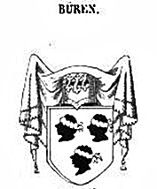 Wappen der Stadtadelsfamilie von Büren aus Unna